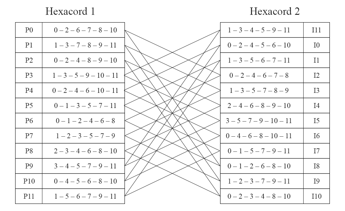 Table which relates the relations between the transformations of hexacords in Gerhard's Quartet for strings n. 1